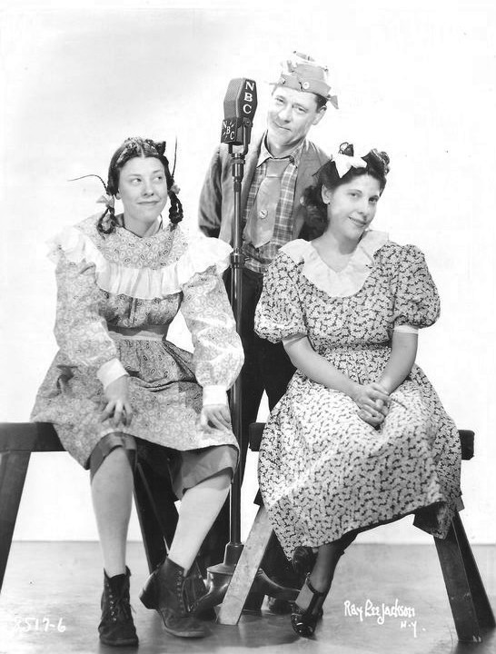 Photo of the Canova family who performed on radio and in films. From left: Judy, Zeke and Annie. Judy had the most notable career of the siblings. This photo was taken before Judy had her own radio program; the siblings were performers on The Chase and Sanborn Hour.